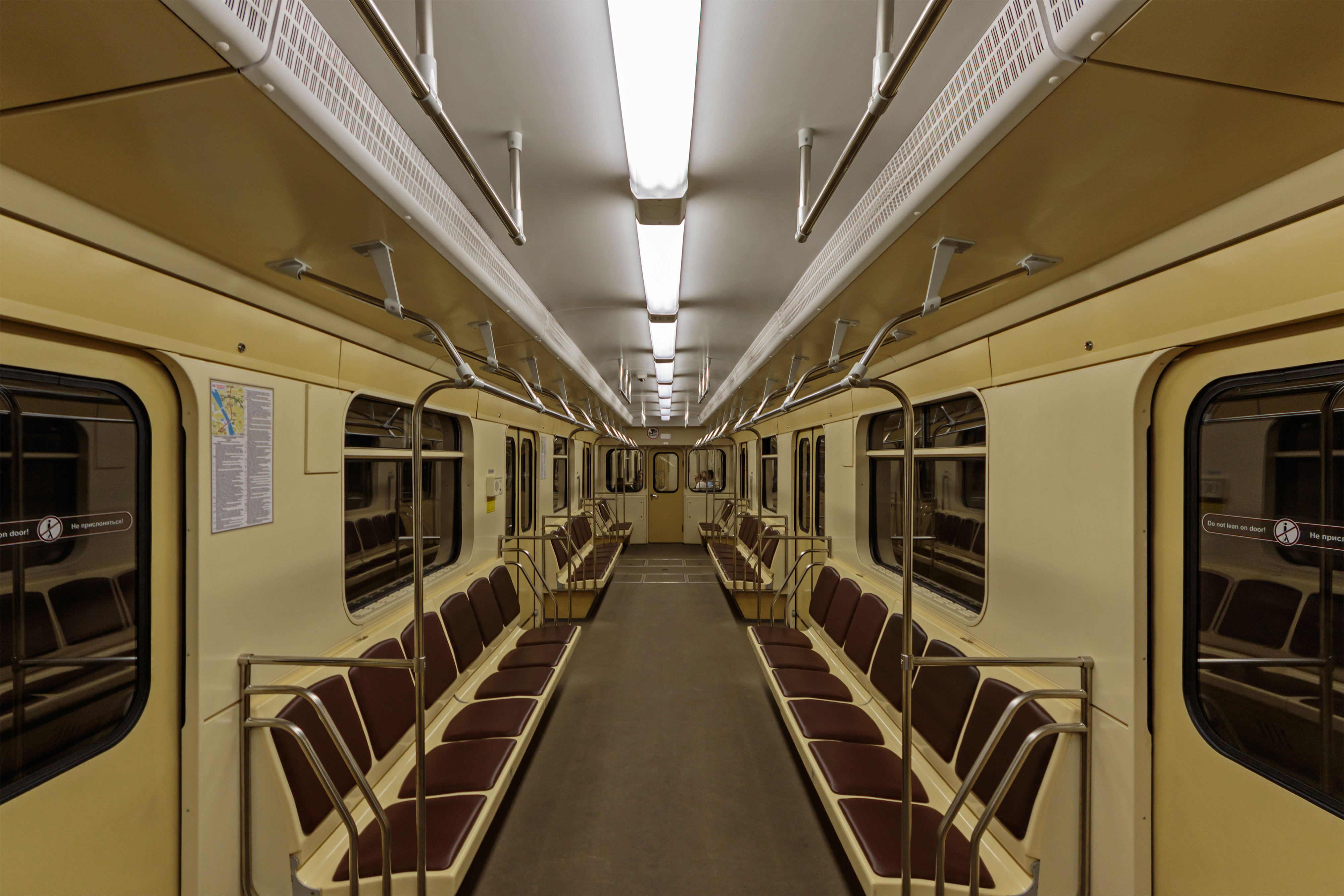 Interior of 81-717/714 metro train in Novosibirsk, Russia